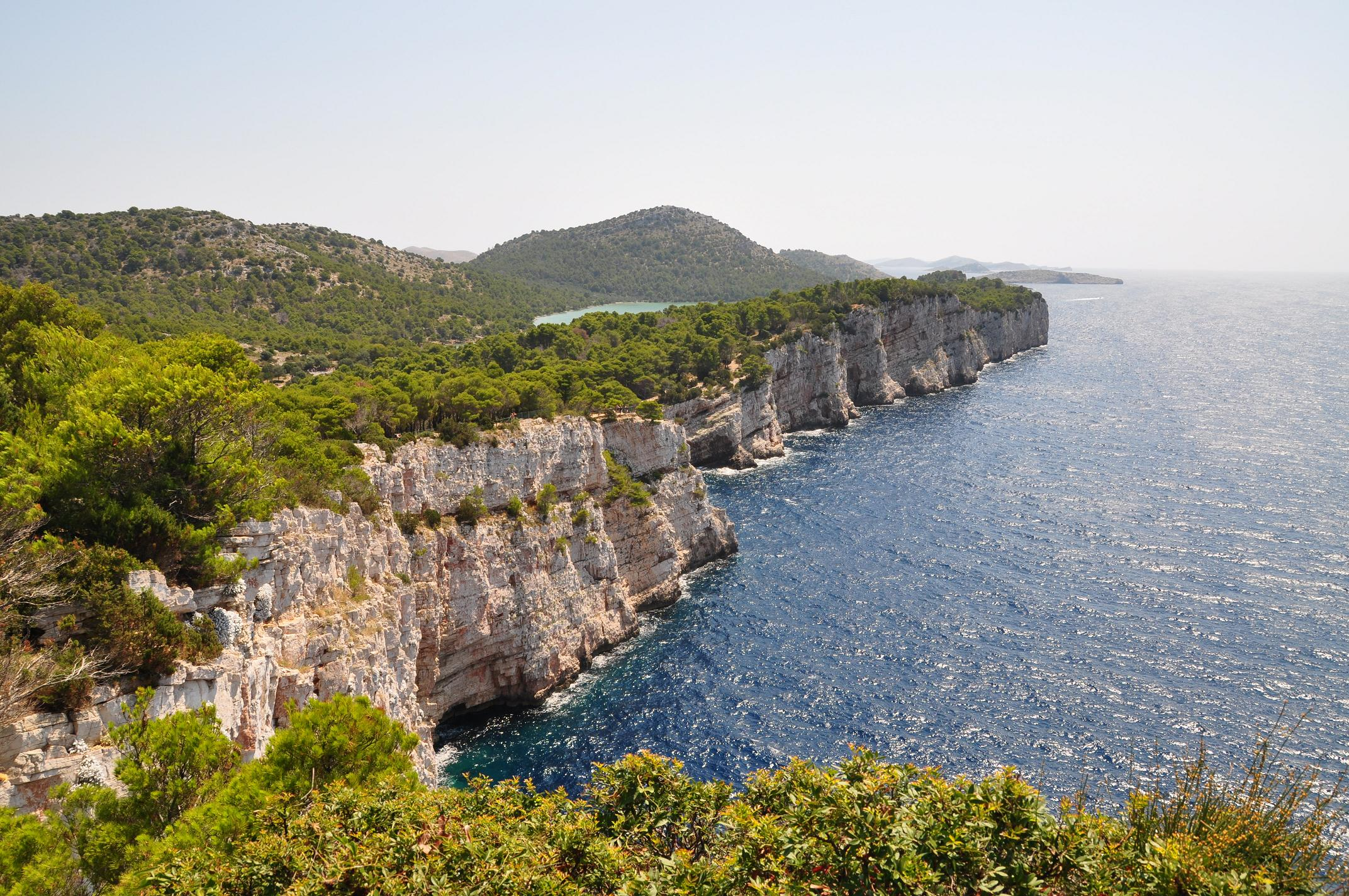 Telašćica Cliff in August 2010, Dugi otok.